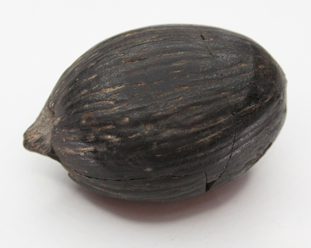 Cocos zeylanica (Miocene). Collected 1959, Doubtless Bay, near Kaitaia. Collection of the Whanganui Regional Museum, 1959.196.